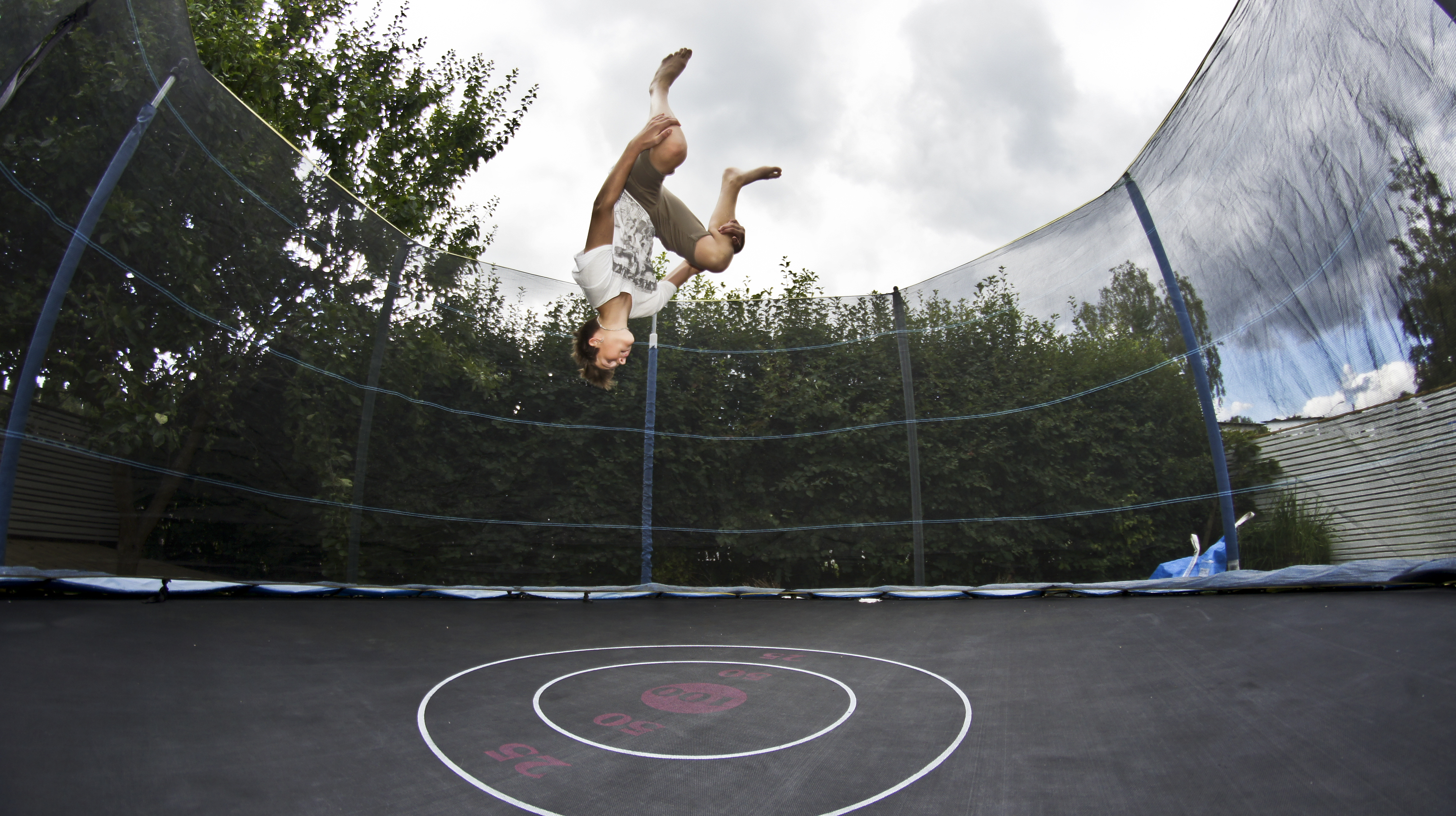 A jumper doing a flip on a trampoline with a safety net. Photo taken in Stockholm on a sunny day.